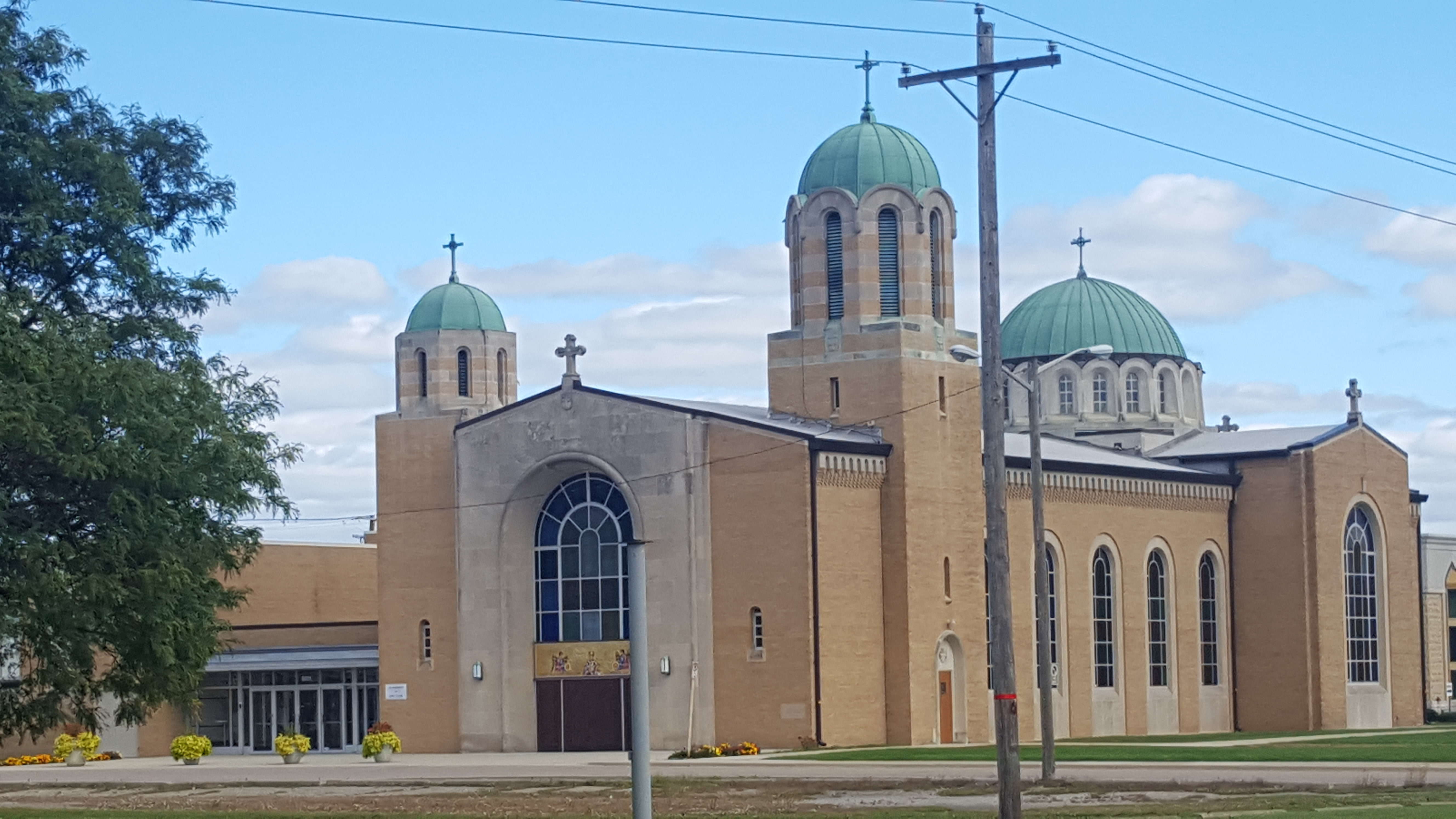 St. Clement Ohridski Macedono-Bulgarian Eastern Orthodox Church, Dearborn, Michigan (not the same as St. Clement Roman Catholic Church, Dearborn, Michigan)